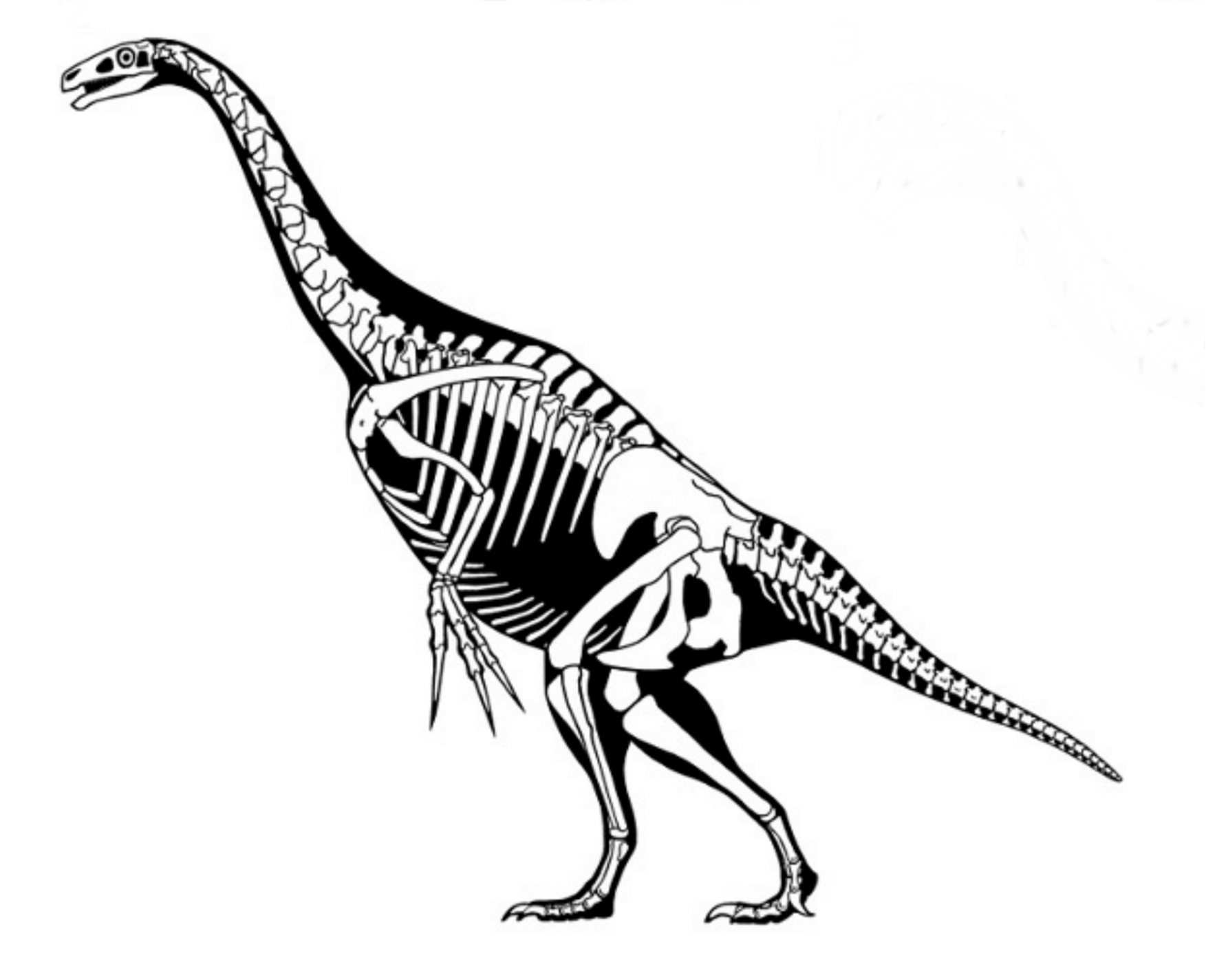 Skeletal reconstruction of Therizinosaurus. Modified from Scott Hartman's Nothronychus skeletal.